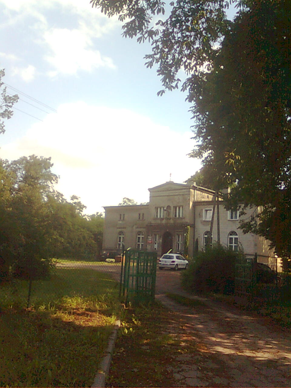 Palace in Węgierki